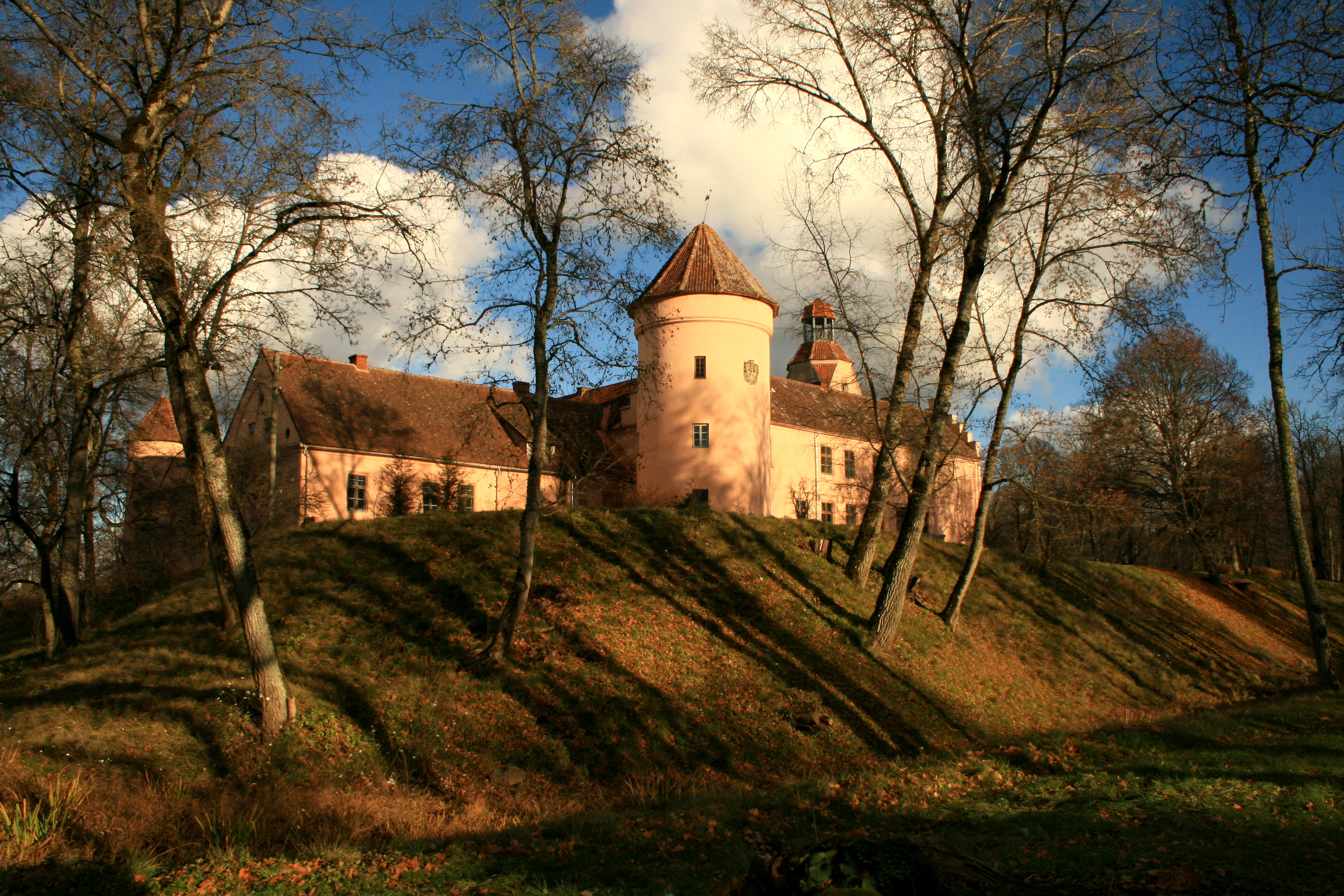 Ēdole CastleLatviešu: Ēdoles pils